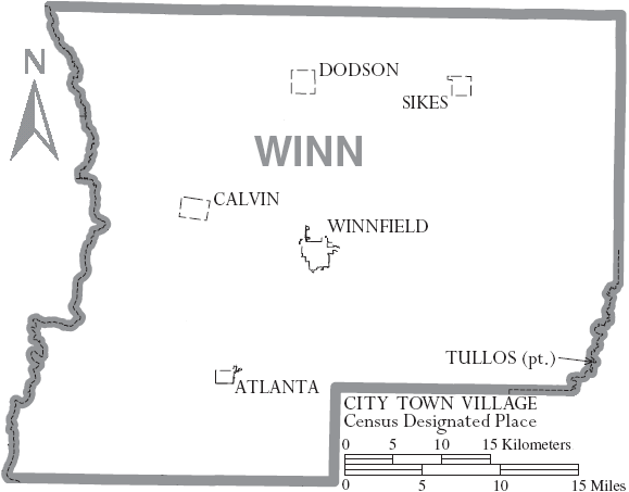 Map of Winn Parish, Louisiana, United States with municipal boundaries